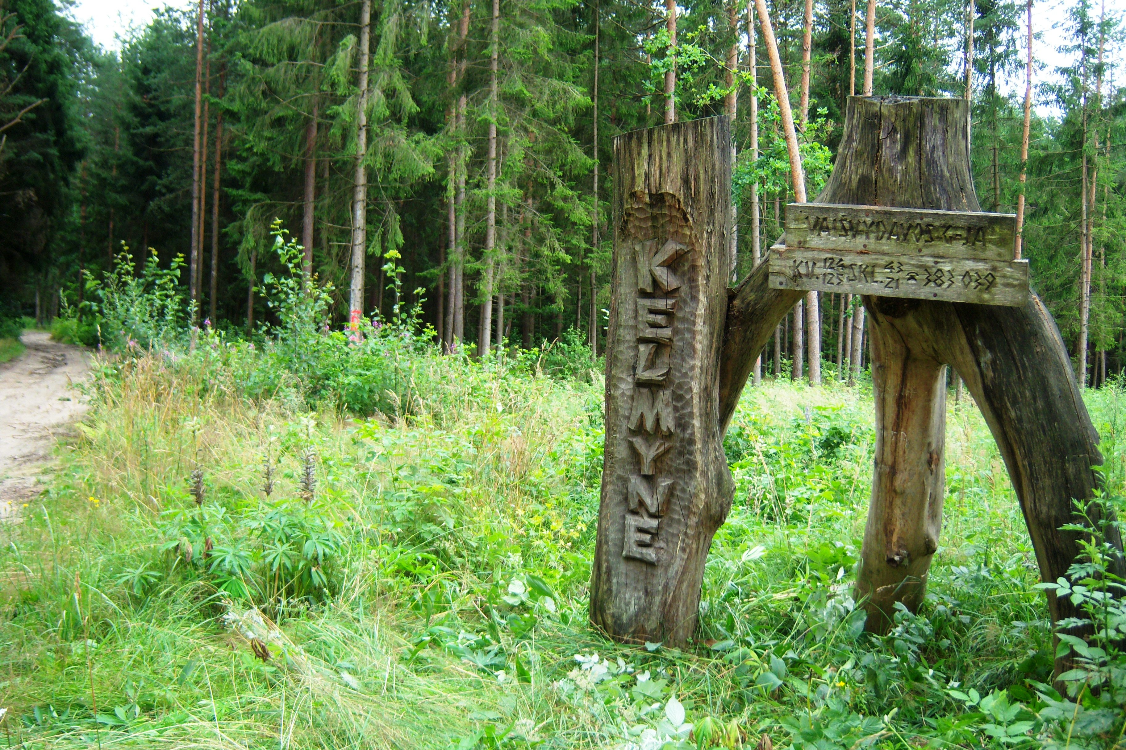 Sign by Rokų Miško Kelmyno village, Dubravos forest, Kaunas district. Lithuania